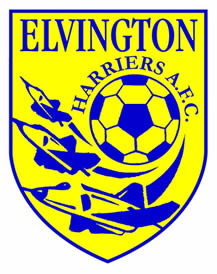 Elvington Harriers F.C.